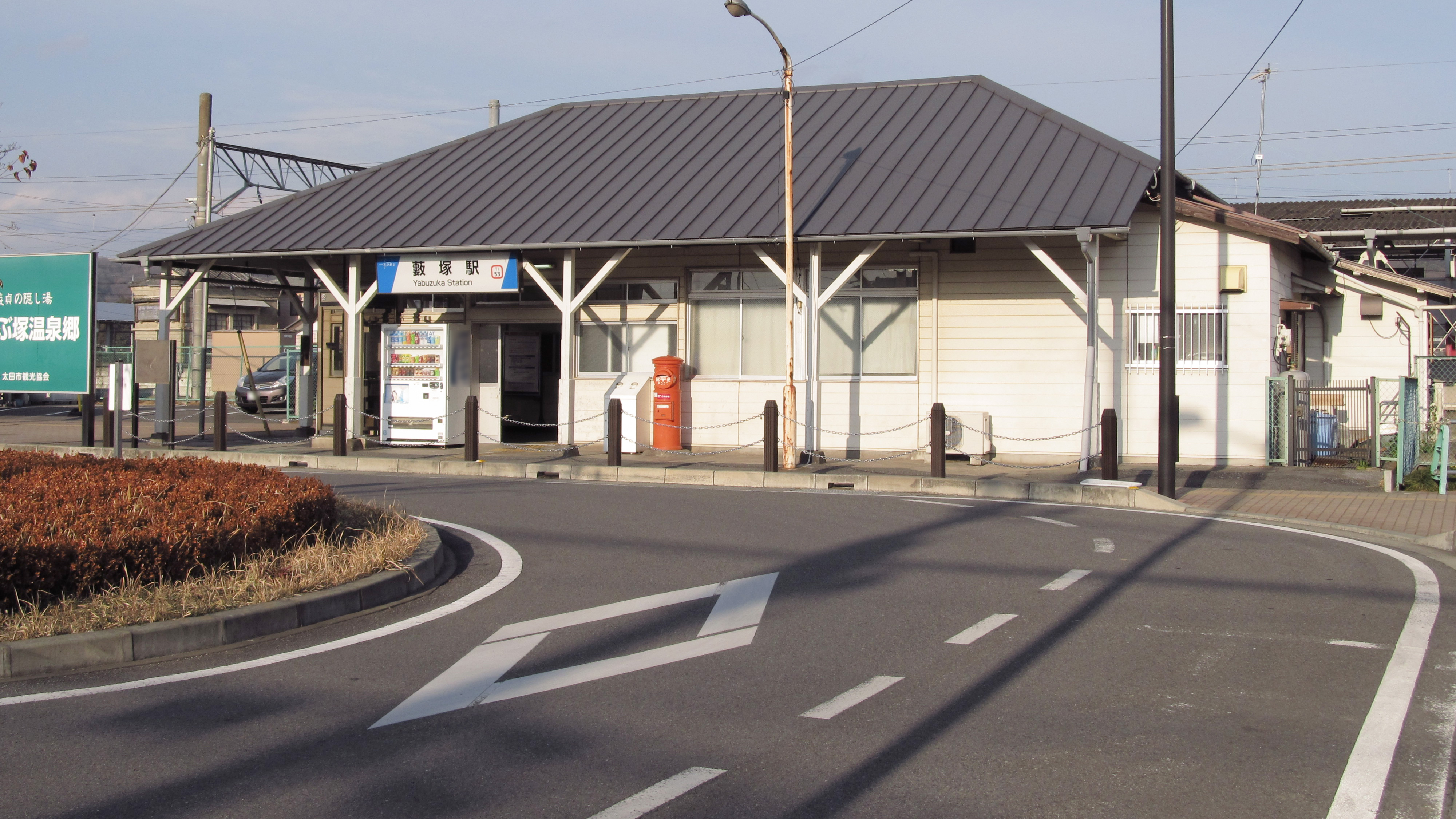 The building of Yabuzuka Station on the Tobu Railway Kiryū Line in Ōta city, Gumma prefecture, Japan